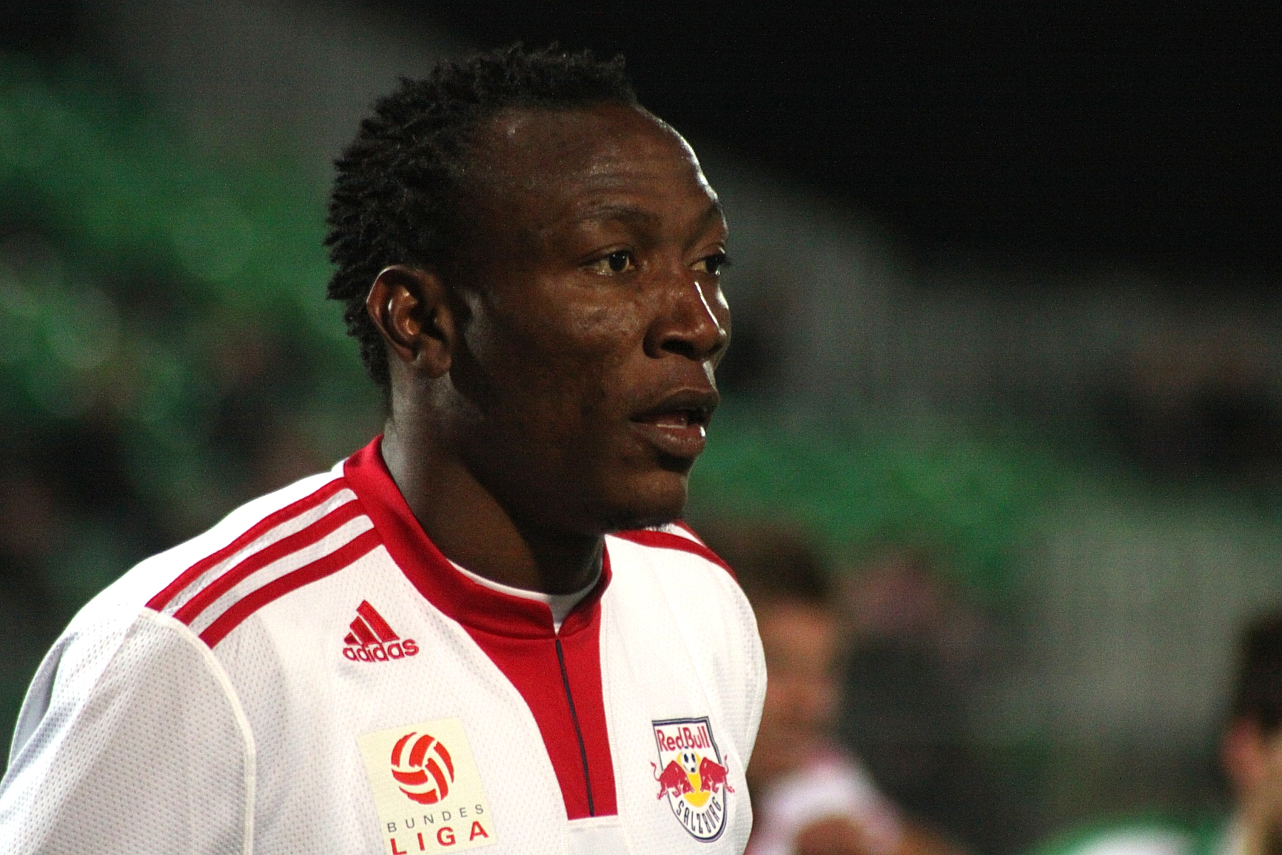 Somen Tchoyi - FC Red Bull Salzburg